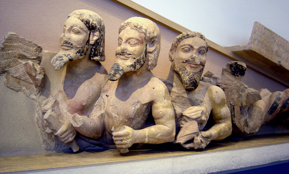 Triple-Bodied Monster on the west pediment of the Old Temple of Athena. It's about a creature composed of three male figures joined at the waist. The first figure holds in its left hand water, the second fire, and the third a bird (symbolizing air). The monster ends in a body with shape of serpent. West pediment of the Old Temple of Athena or perhaps of the Hekatompedon. Lenormant fragment.